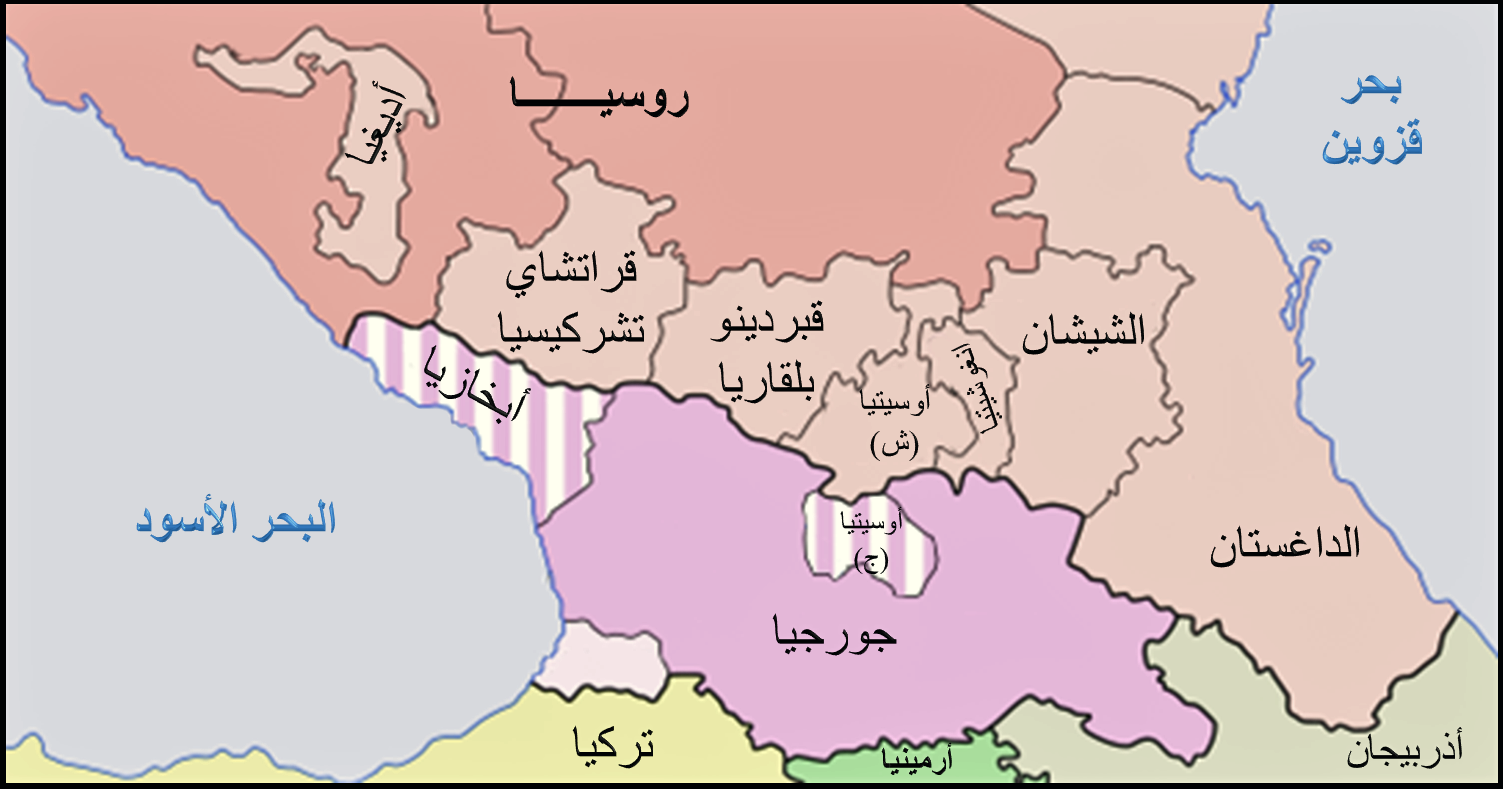 Republics of the North Caucasus